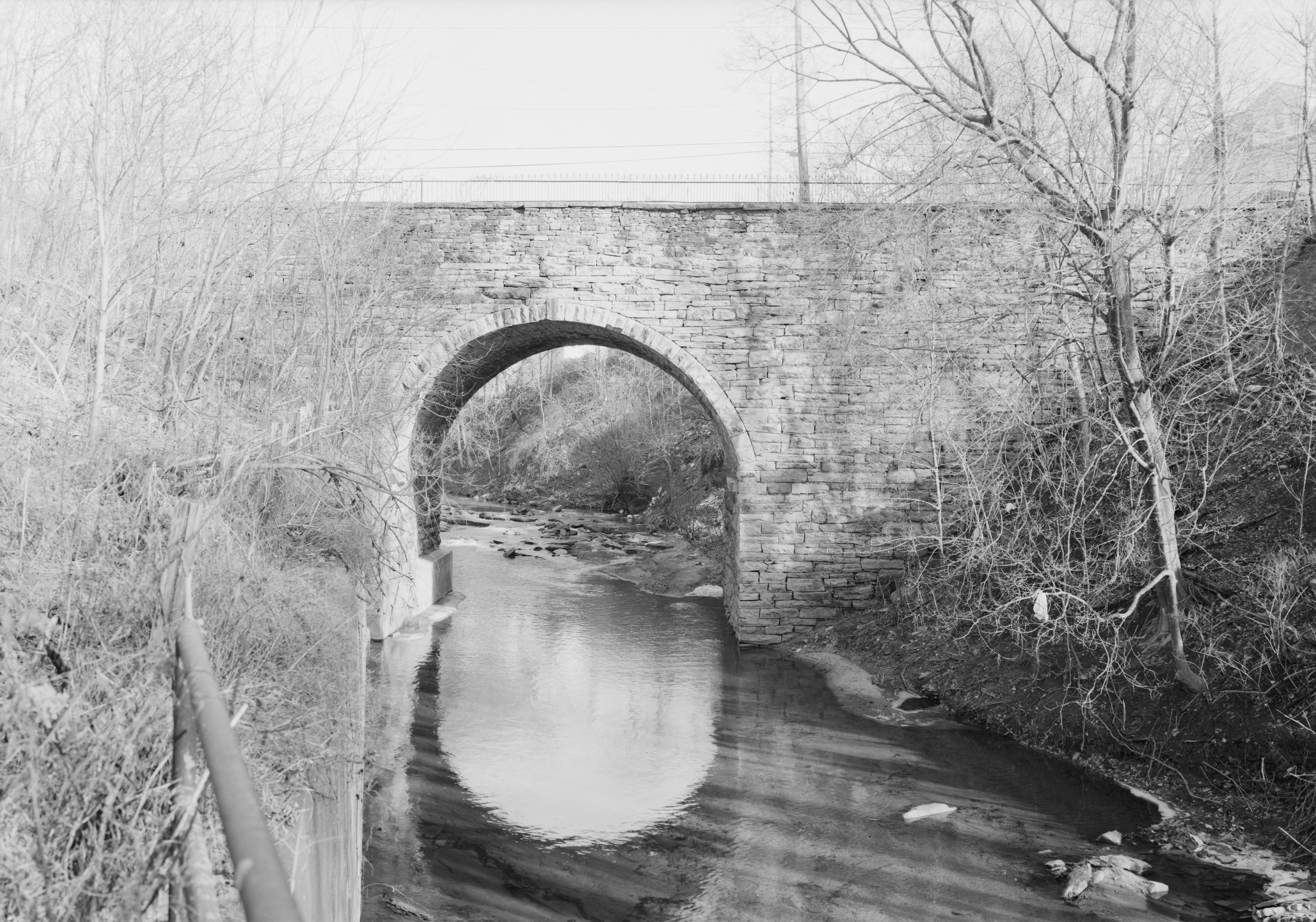 Western (downstream) side of the Bridge in City of Wilkes-Barre, which carries River Street over Mill Creek in Wilkes-Barre, Pennsylvania, United States. Built in 1885, this single-span stone arch bridge is listed on the National Register of Historic Places.